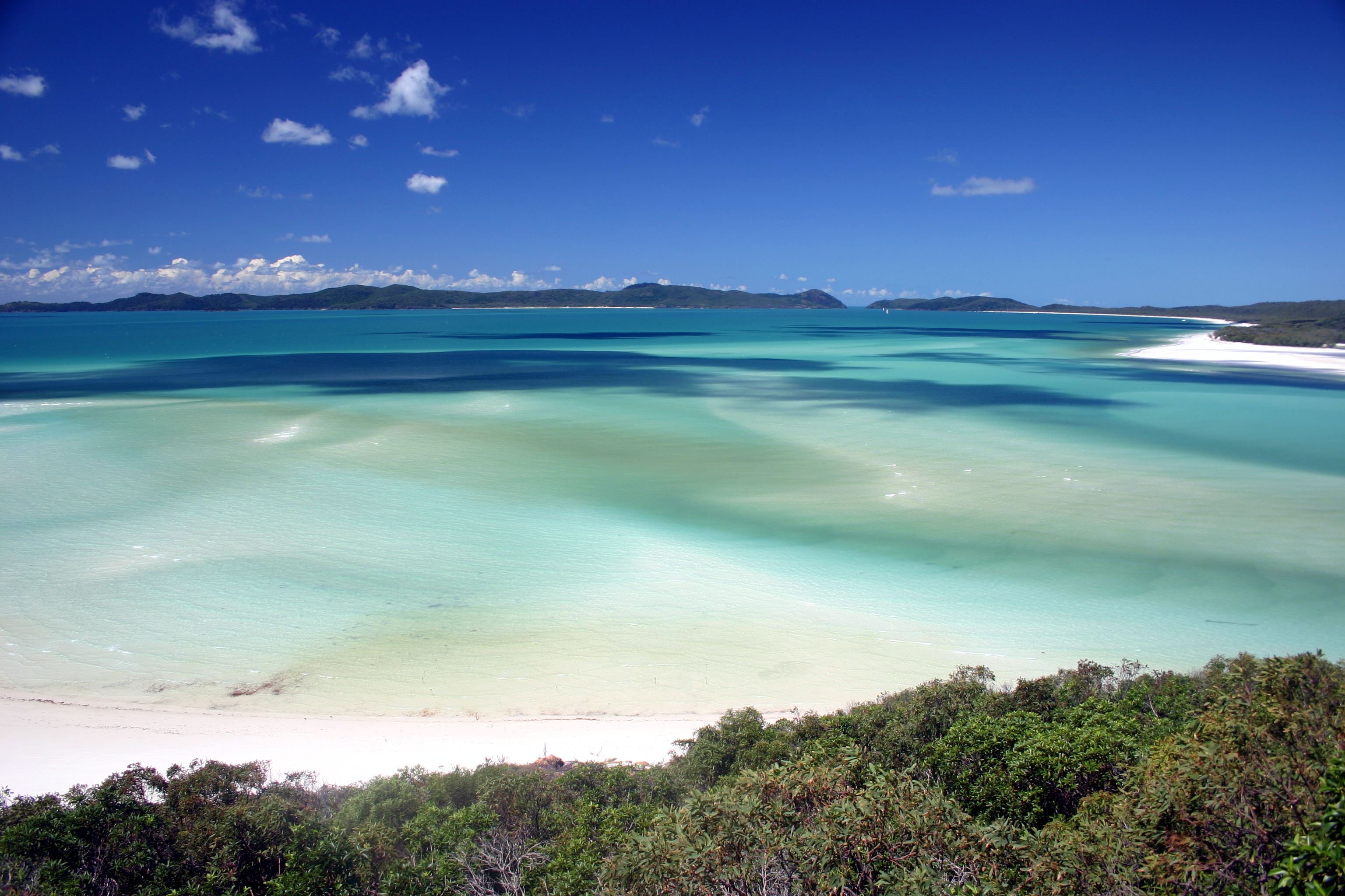 Whitehaven Beach, Whitsunday Island